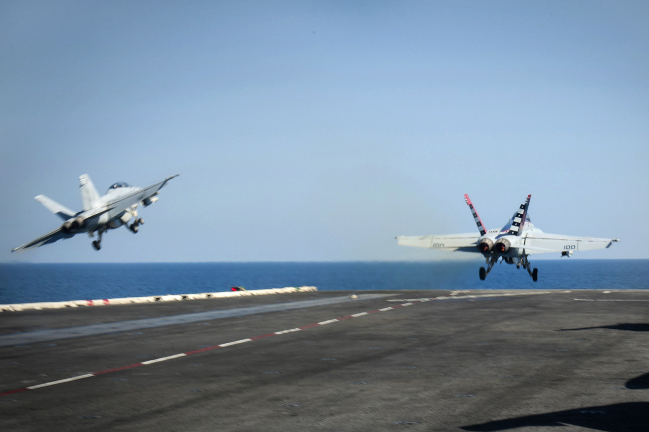 Two F/A-18F Super Hornets, from the Fighting Redcocks of Strike Fighter Squadron (VFA) 22 launch from the flight deck of the Nimitz-class aircraft carrier USS Carl Vinson (CVN 70) as the ship conducts flight operations in the U.S. 5th Fleet area of operations supporting Operation Inherent Resolve. The Carl Vinson Carrier Strike Group is currently deployed to the area supporting maritime security operations, strike operations in Iraq and Syria as directed, and theater security cooperation efforts in the 5th Fleet AOR. (U.S. Navy photo by Mass Communication Specialist 2nd Class Scott Fenaroli/Released)